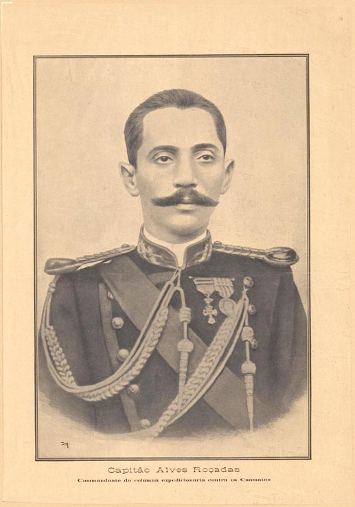 Lithography of a photo of (then captain) José Augusto Alves Roçadas (1865-1926), commander of the southern front during the occupation of Angola (1905-1907) and an important Portuguese politician.